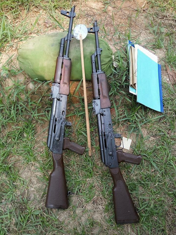 MPi-KM assault rifles are in service of Vietnam People's Army and used as training gun.